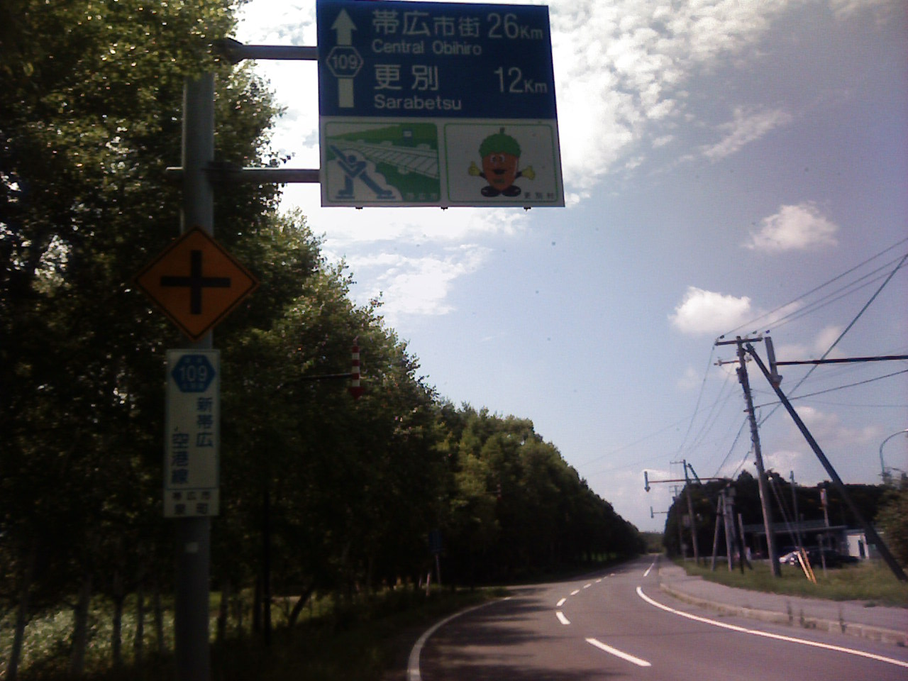 Hokkaido Pref. road ROUTE109,Obihiro,Hokkaido,Japan